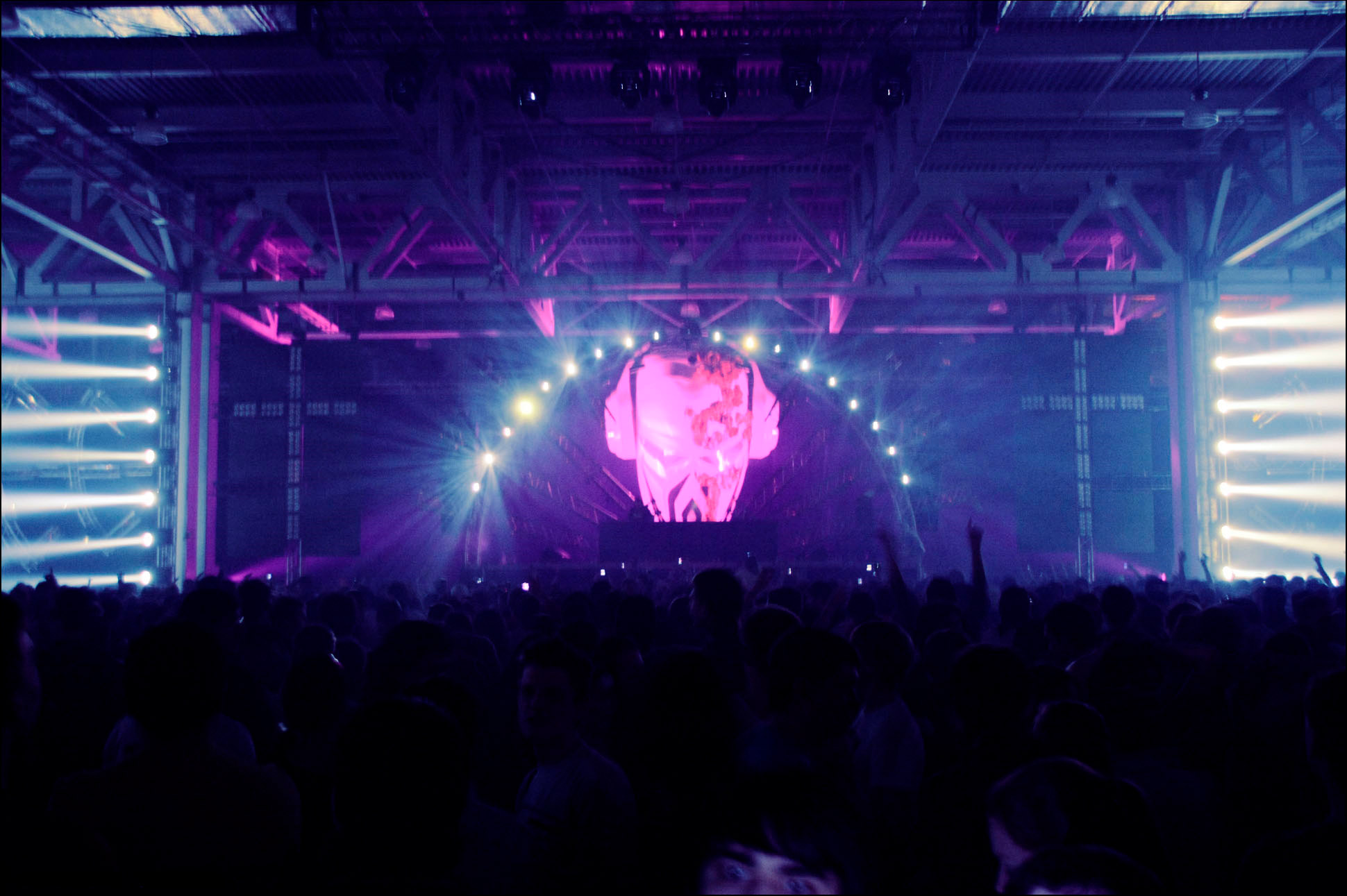 Moscow action of the Pirate Station: Immortal, largest d'n'b festival